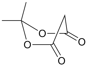 boat conformation of Meldrum's acid